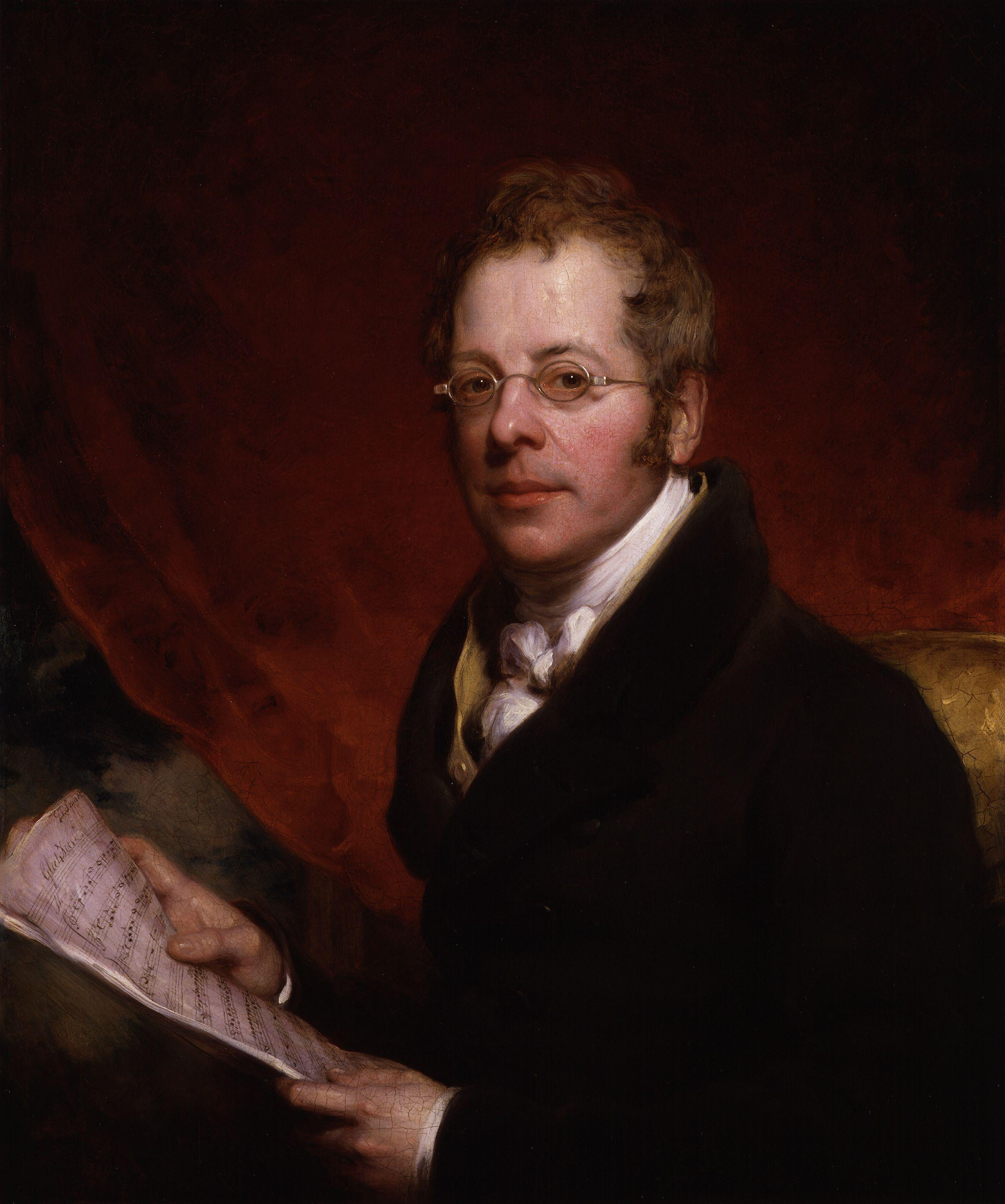 Sir George Thomas Smart, by William Bradley (died 1857). All images in this batch have been confirmed as author died before 1939 according to the official death date listed by the NPG.